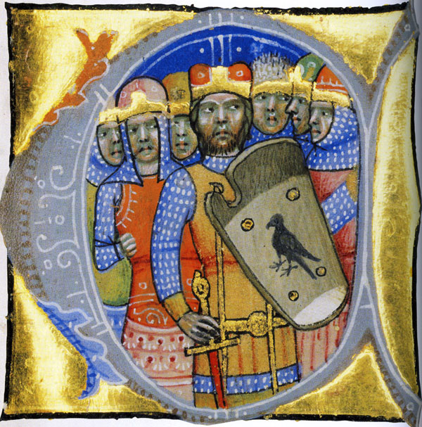 Miniature of the Seven Chieftains of the Magyars